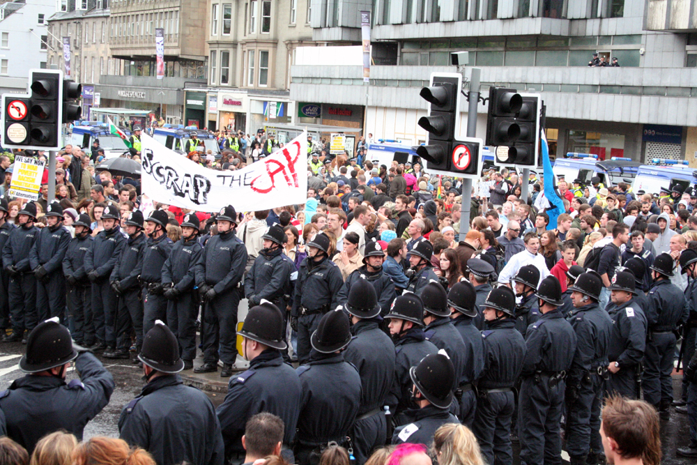 Anti-globalization protesters in Edinburgh during the start of the G8 summit.